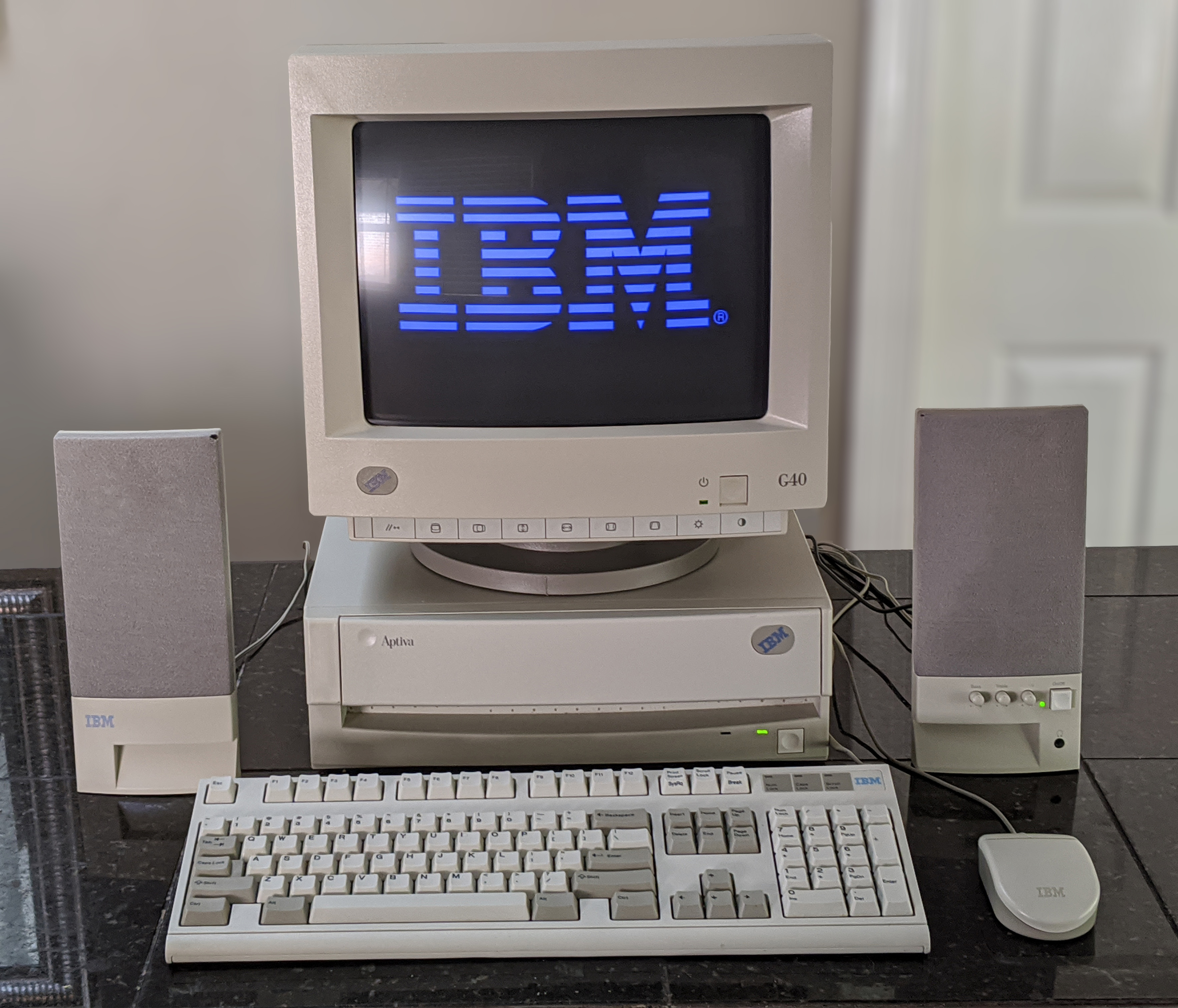 IBM Aptiva 2144-M51 desktop computer with IBM G40 VGA monitor and IBM M2 buckling spring keyboard, circa 1995.